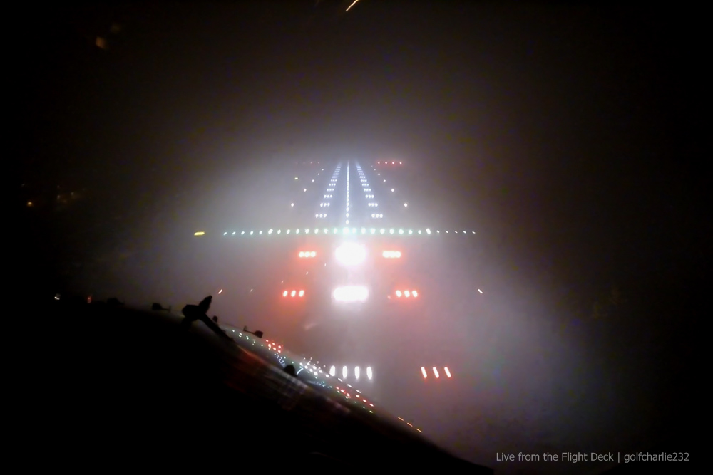 CAT IIIA Landing Gopro Hero 3+ Black Edition Weather conditions: BKN001, OVC002, RVR 1000m